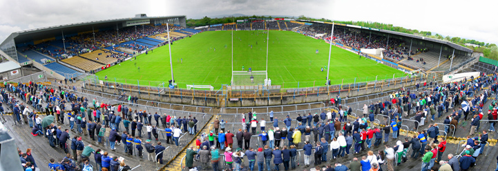 The field view of Semple Stadium looking west from the east seating area (a.k.a. 'Town End' or 'Davin Terrace')